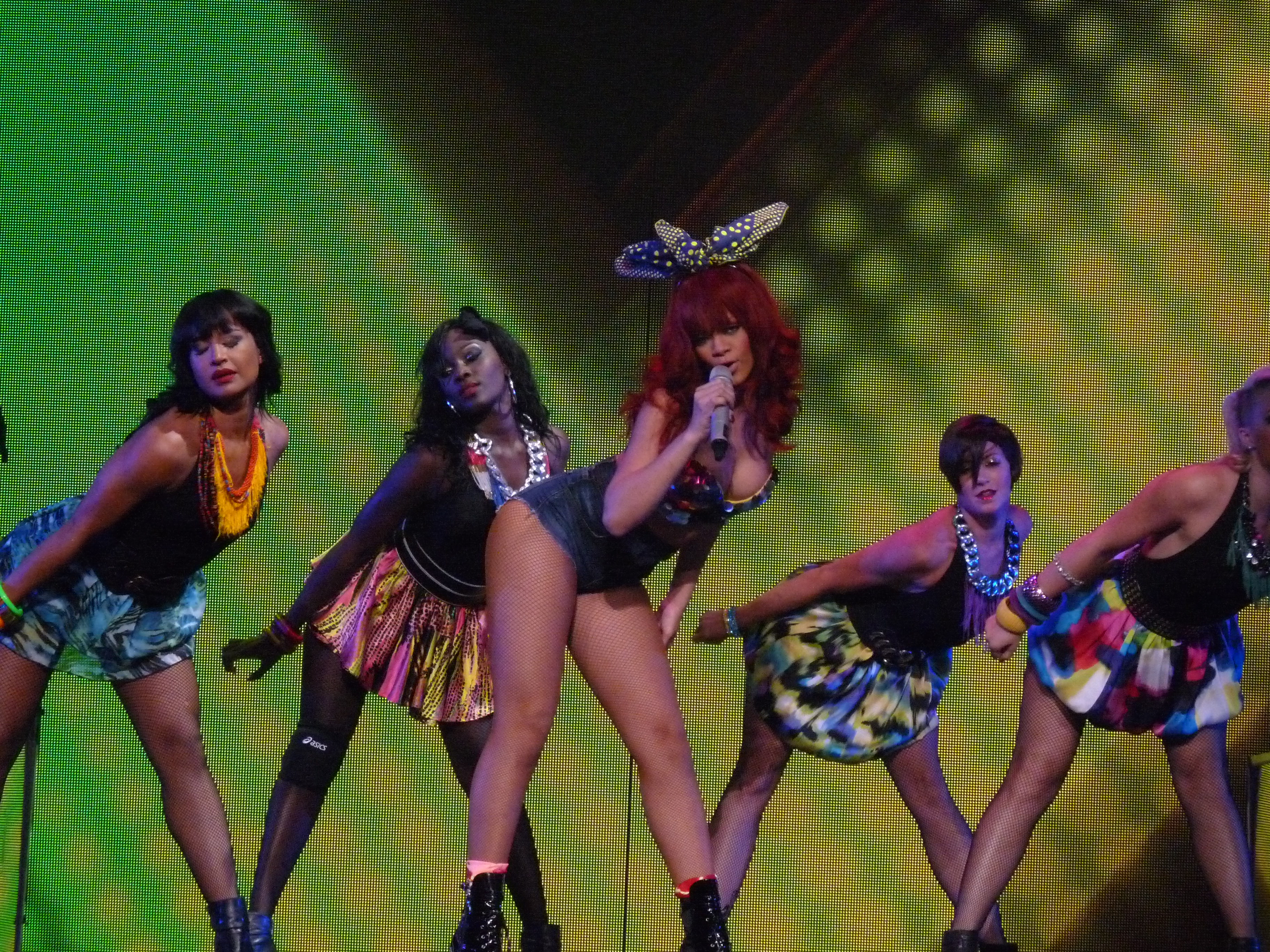 Rihanna live at Bankatlantic Center, Sunrise, Florida, on her tour The LOUD Tour. 14th July 2011